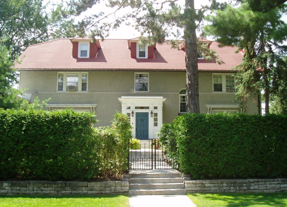 Stornoway, the official residence of the Leader of the Opposition in Canada. Located in the Rockliffe Park neighbourhood of Ottawa, it was built by architect Alan Keefer in 1914 for Ottawa grocer Asconio J. Major and was given the name "Stornoway" by the second occupants, the Perley-Robertsons, after the ancestral home of the Perley family in the Outer Hebrides in Scotland. During the Second World War, it served as the temporary home-in-exile of future Queen (then-princess) Juliana of the Netherlands and her family, including the current Queen Beatrix of the Netherlands. It has been used as an official residence since 1950.